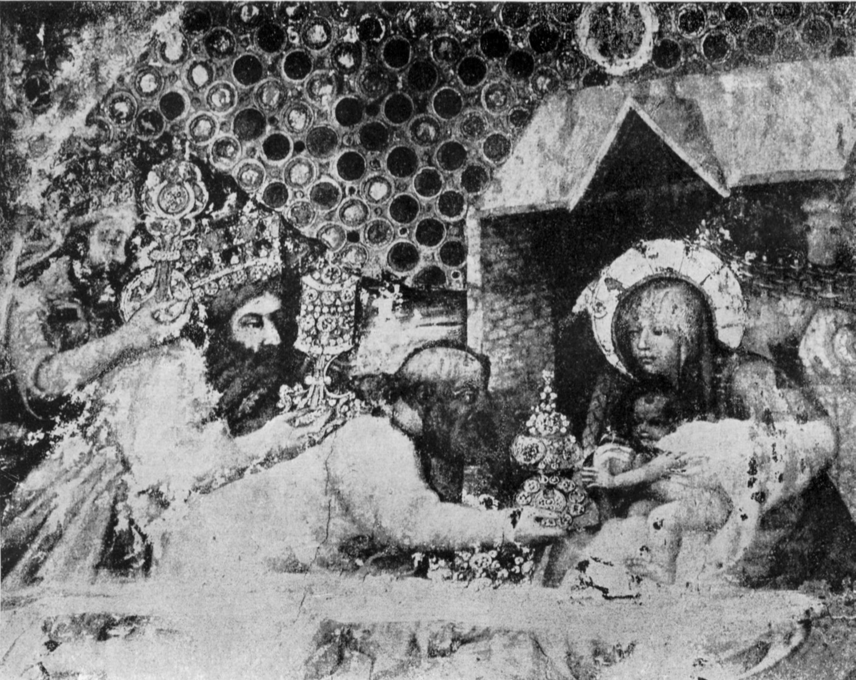 Adoration by the magi. Fresco in Karlstein